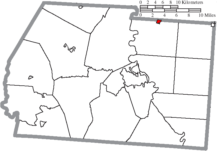 Map of the municipal and township boundaries of Ross County, Ohio, United States, as of the 2000 census, with the location of the village of Kingston highlighted. Township borders are shown only in unincorporated areas in order to differentiate incorporated and unincorporated areas more clearly.